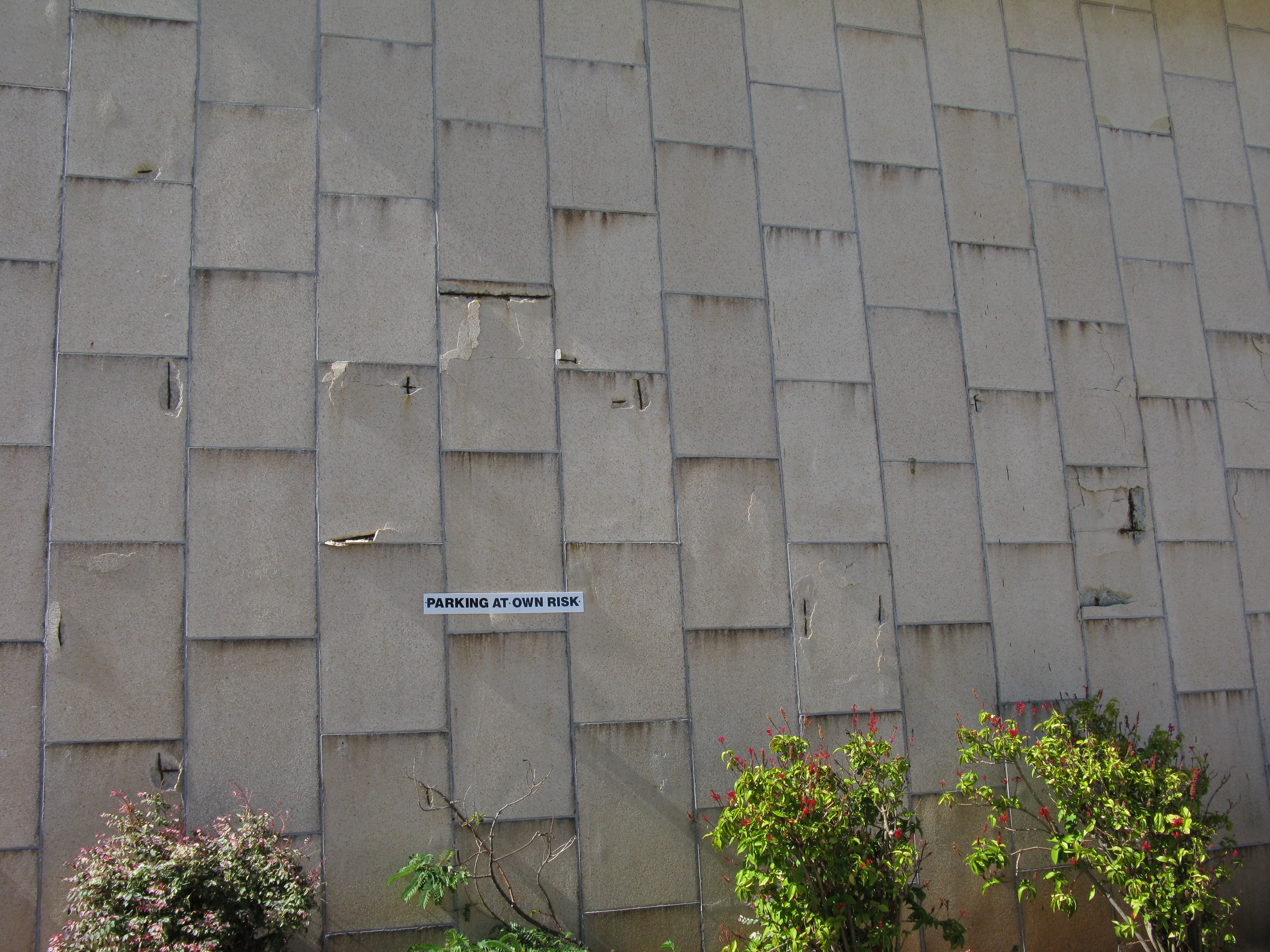 Retaining wall — The rust formed as the iron corrodes has a lower density than the metal, so it expands as it forms, cracking the decorative cladding off the wall, as well as damaging the structural concrete. Photograph taken in grounds of Newton Park Technical High School, Port Elizabeth, South Africa